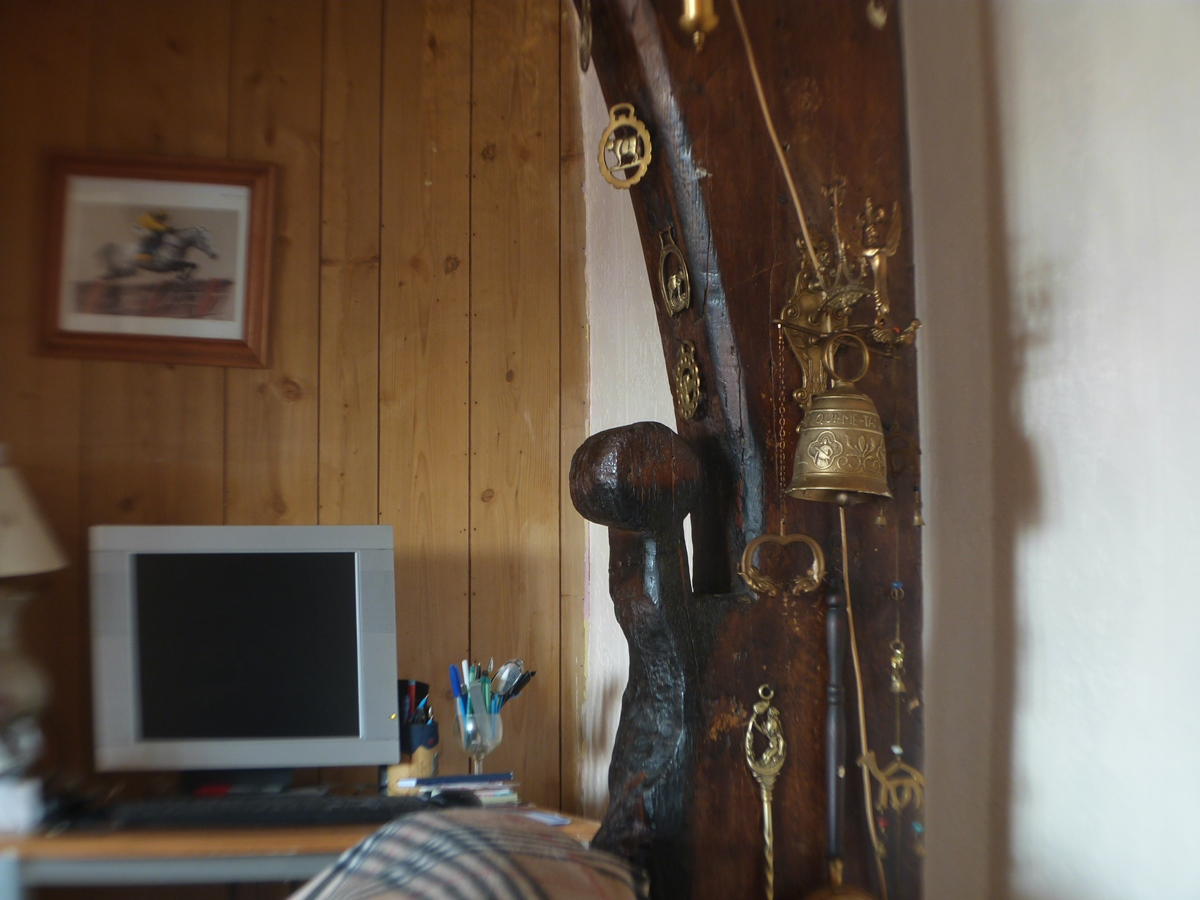 Witches Post at Great House, Midgley.